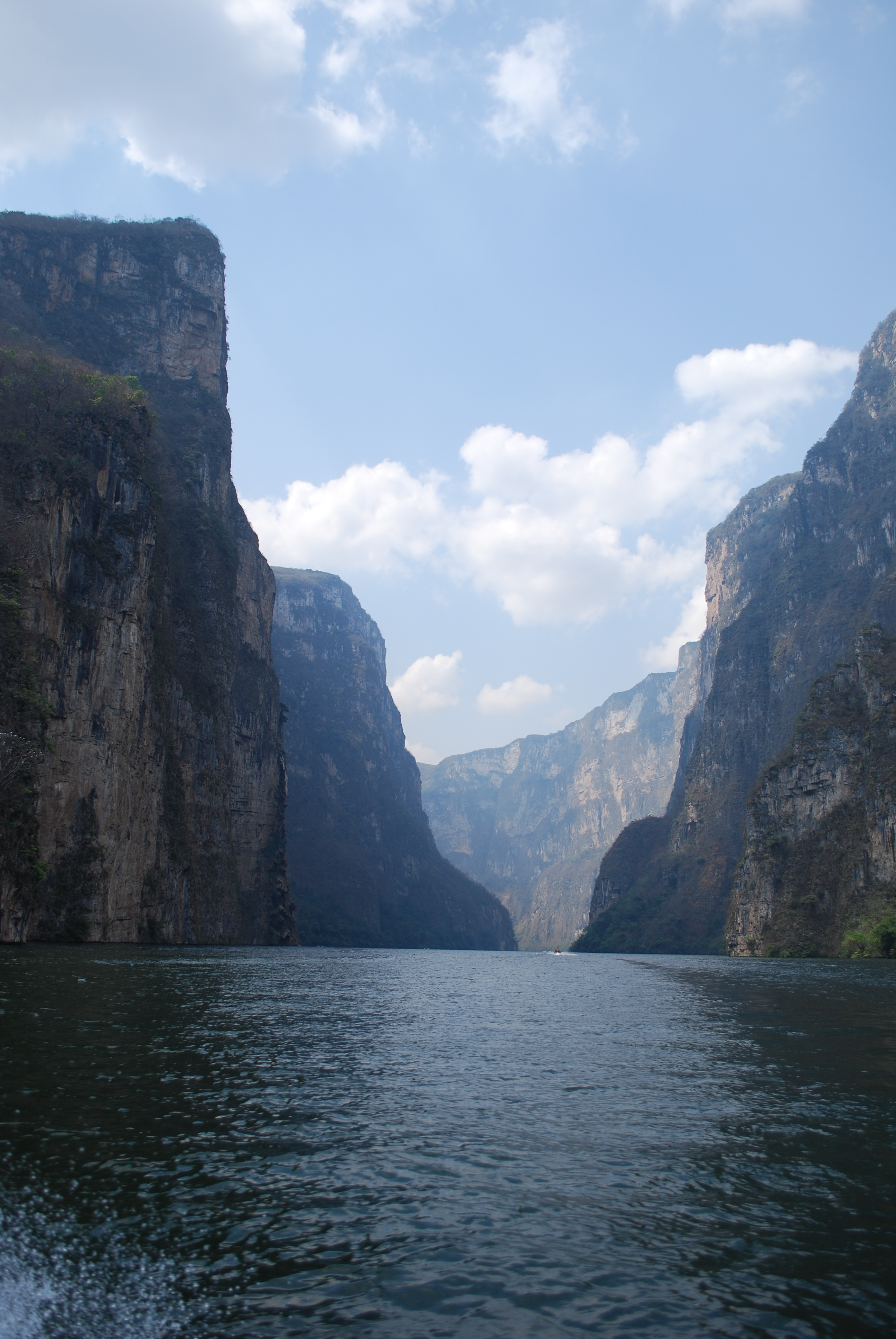 View of the Sumidero Canyon moving from north to south in Chiapas, Mexico